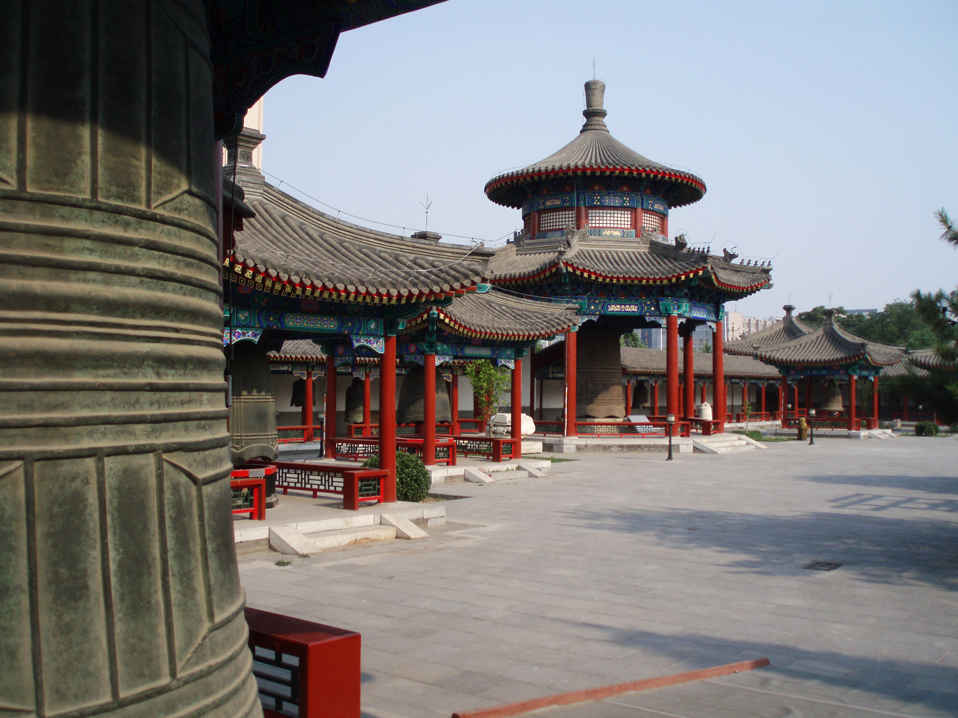 Garden of Nine Pavilions, Big Bell Temple, Beijing. 中文（香港）: 北京大鐘寺內的九亭鐘園。